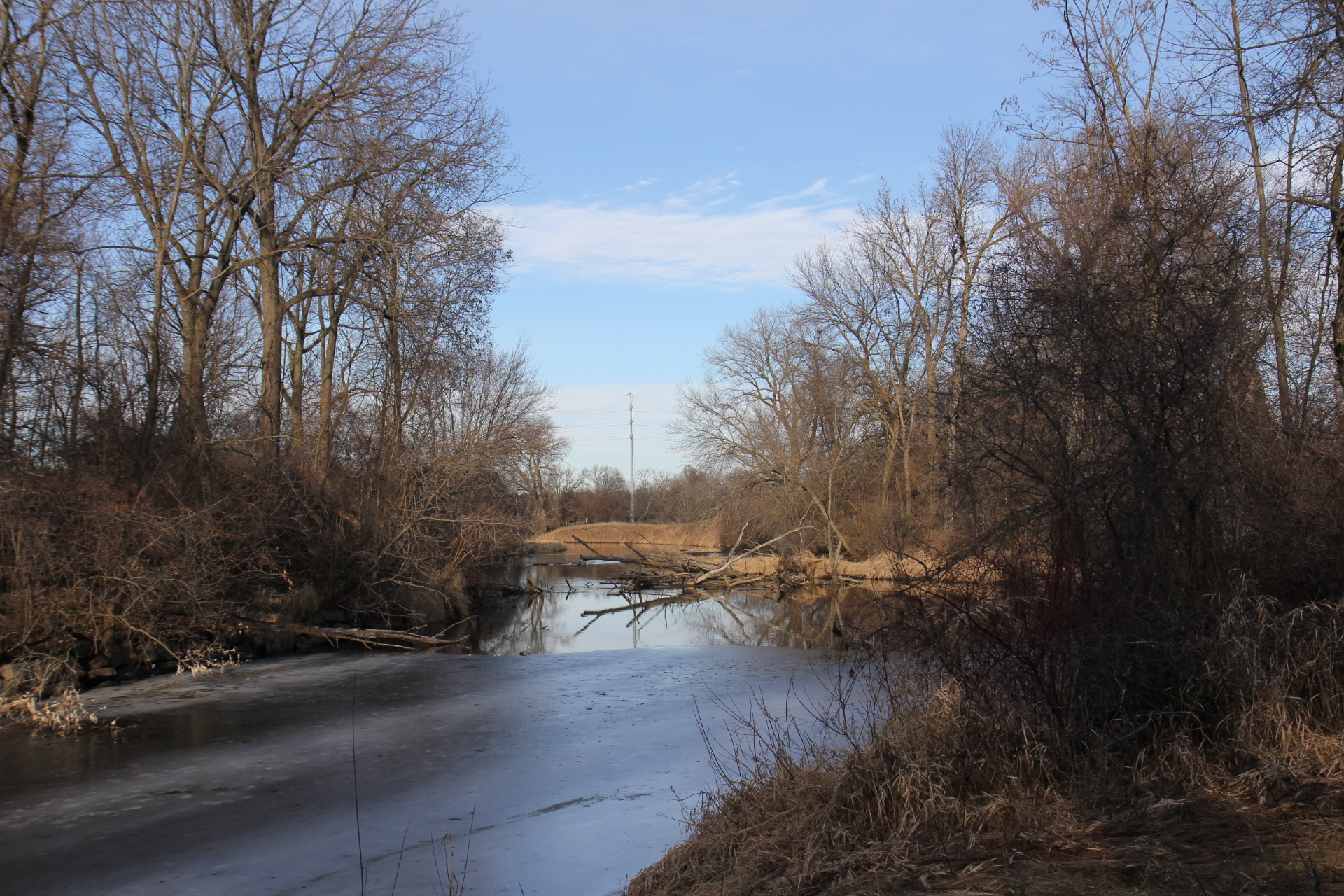 The Portage Canal as it empties into the Fox River.